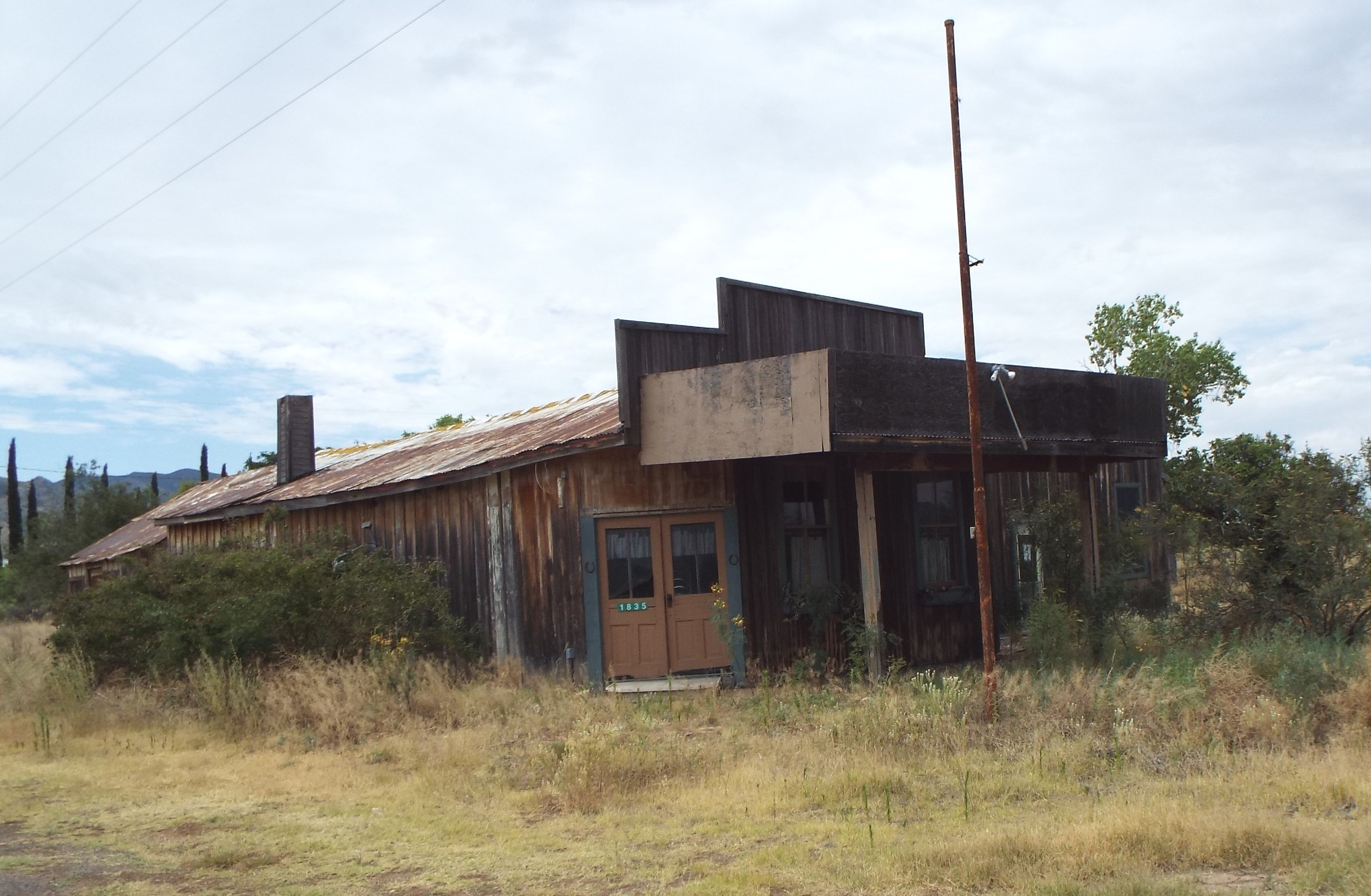 The historic NRHP 1915 J. H. Smith Grocery Store and Filling Station in Dragoon, Arizona